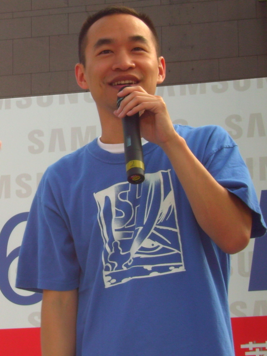 Jeff Li-cheng Huang, leader of a famous musical group "Machi Brothers".中文（台灣）: 黃立成，知名樂團「麻吉兄弟」負責人。